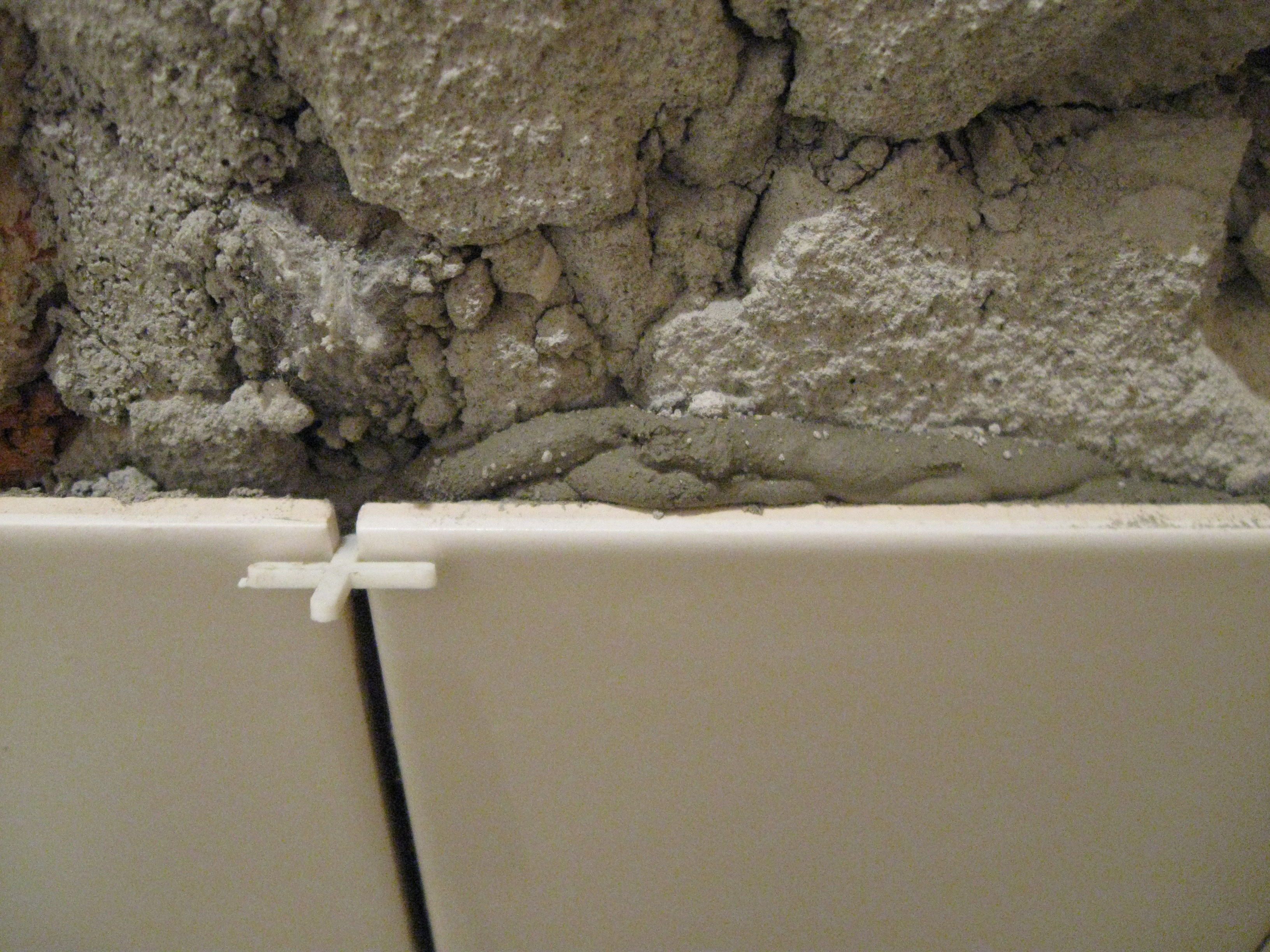 Tiling (mortar joints, masonry glue).